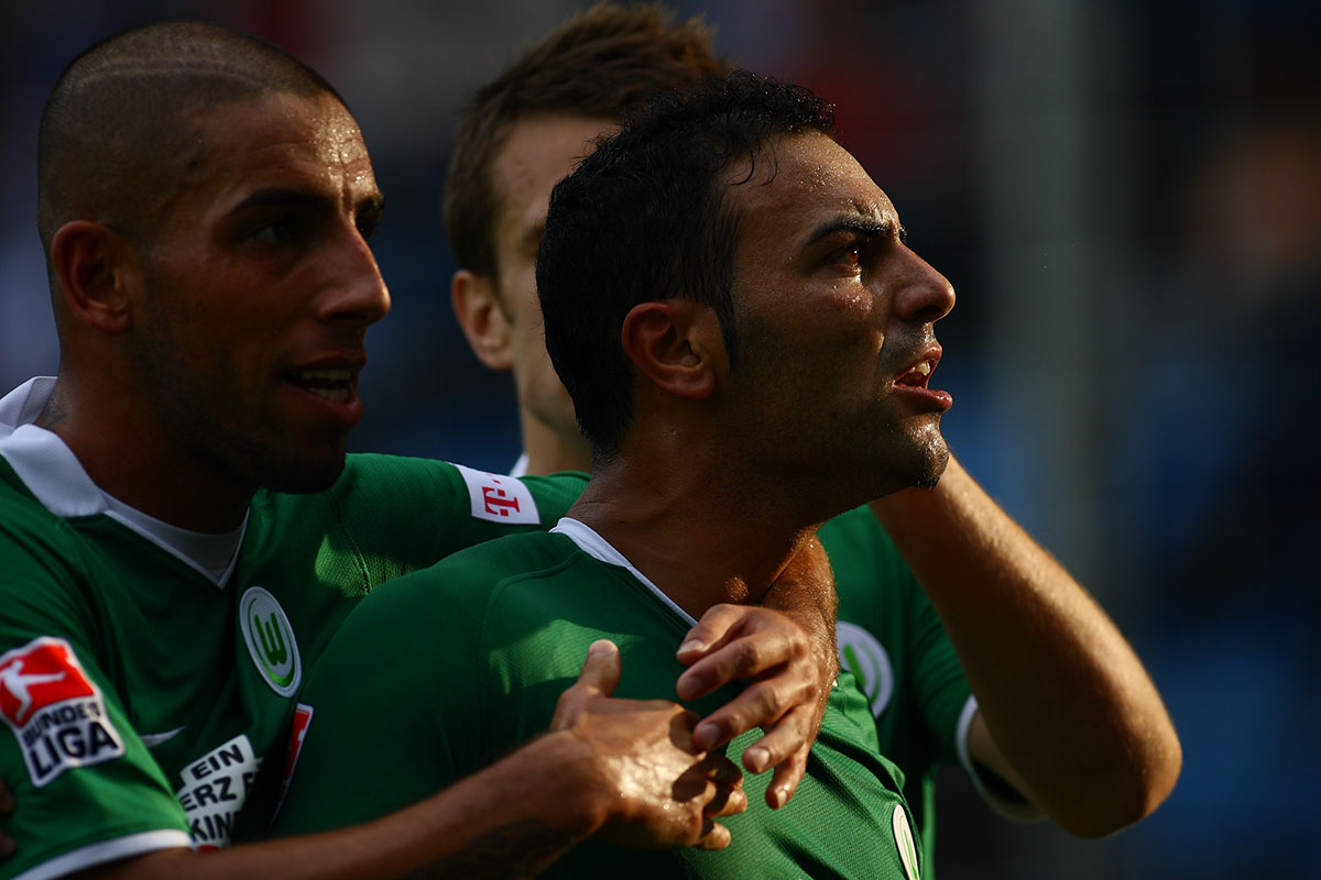 AUGUST 24, 2008 - Football: 1.Bundesliga match between VfL Bochum and VfL Wolfsburg at the rewirpower stadium on August 24, 2008 in Bochum, Germany.